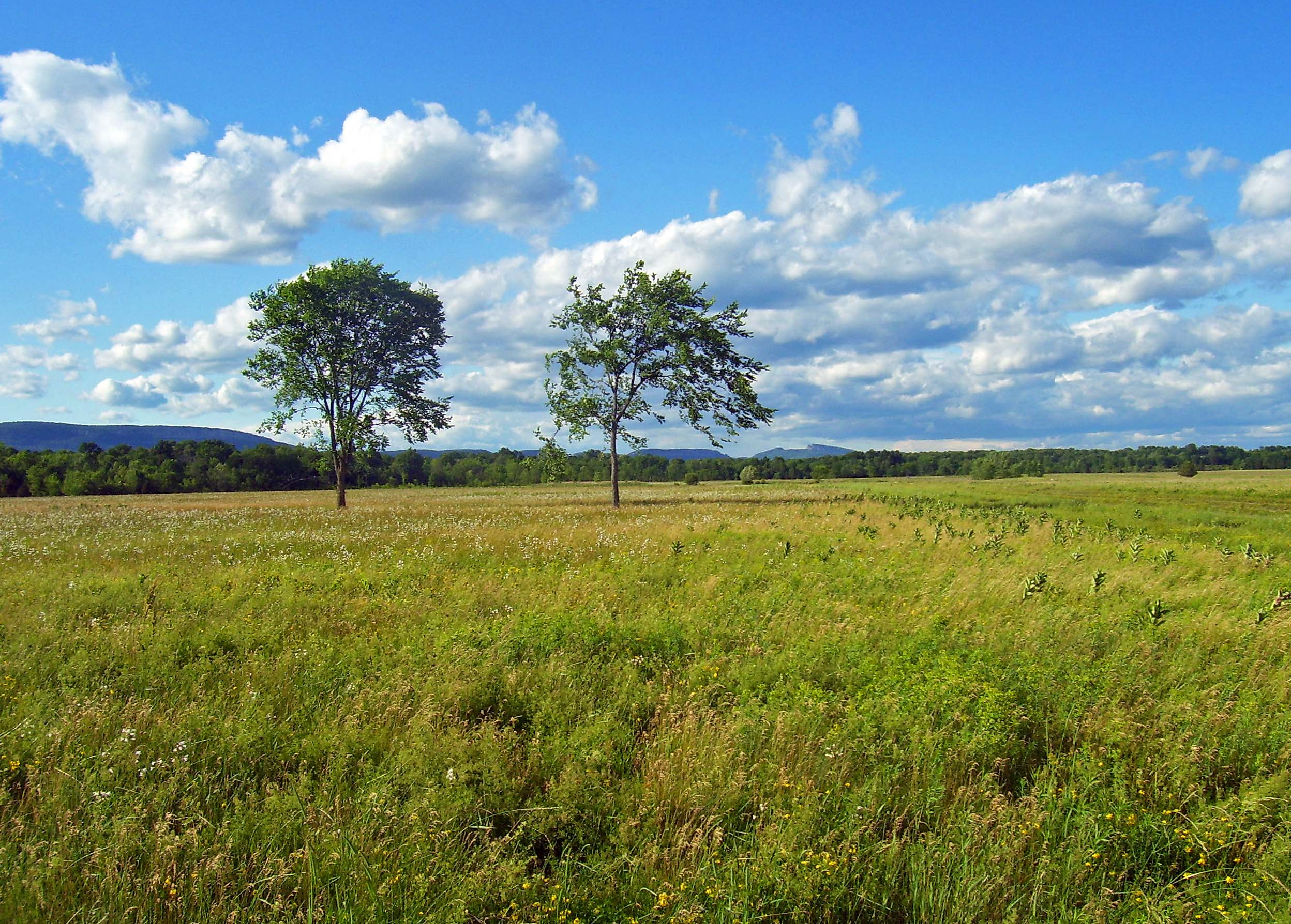 Shawangunk Grasslands National Wildlife Refuge in the Town of Shawangunk, New York.